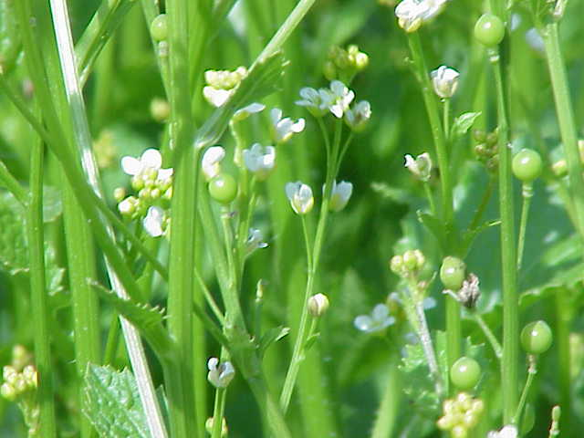 Species: Crambe abyssinica Family: Brassicaceae Image No. 1